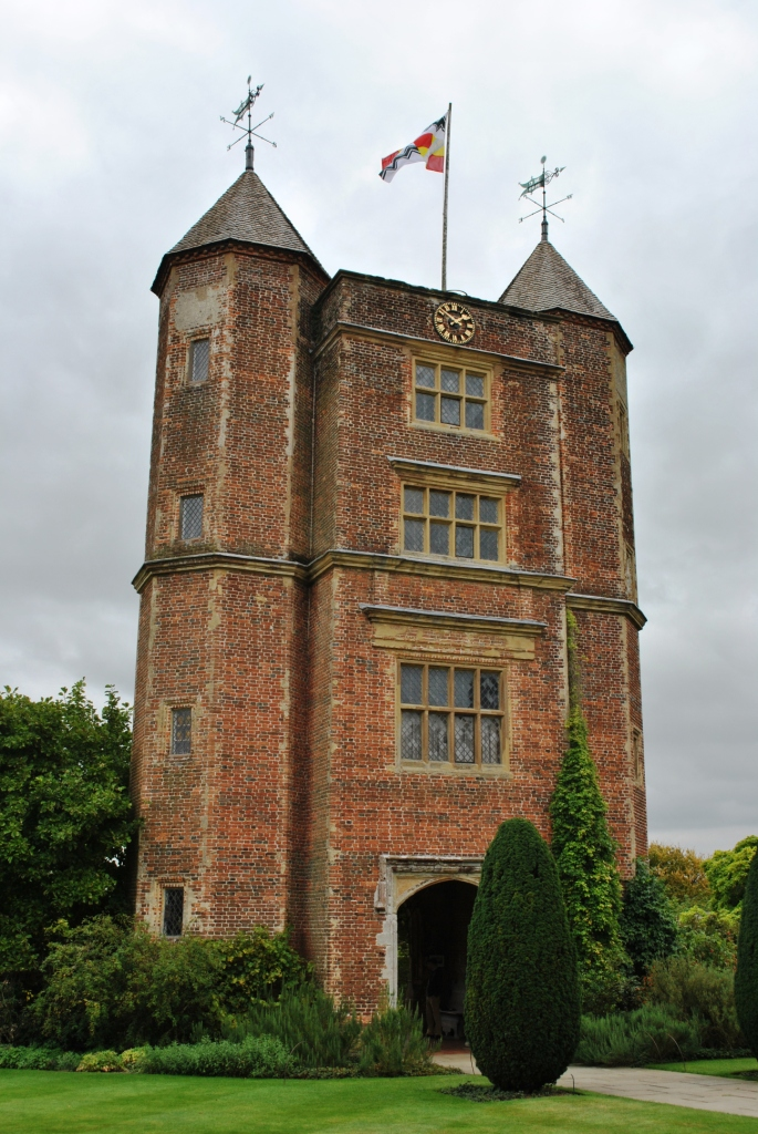 Tower and Walls 30 Yards East of the West Range at Sissinghurst Castle